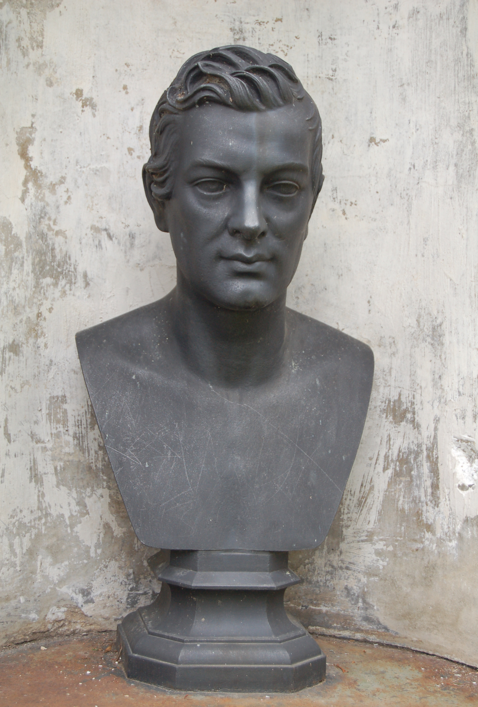 Bust of August Edler von Rosthorn (January 6th, 1789 - November 25th, 1843) at the cemetery of Waldegg, Piestingtal, Lower Austria.